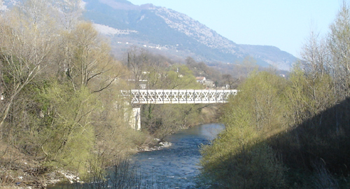 Liri.